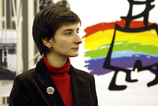 Gulya Sultanova, International Gay and Lesbian Film Festival «Side by Side»